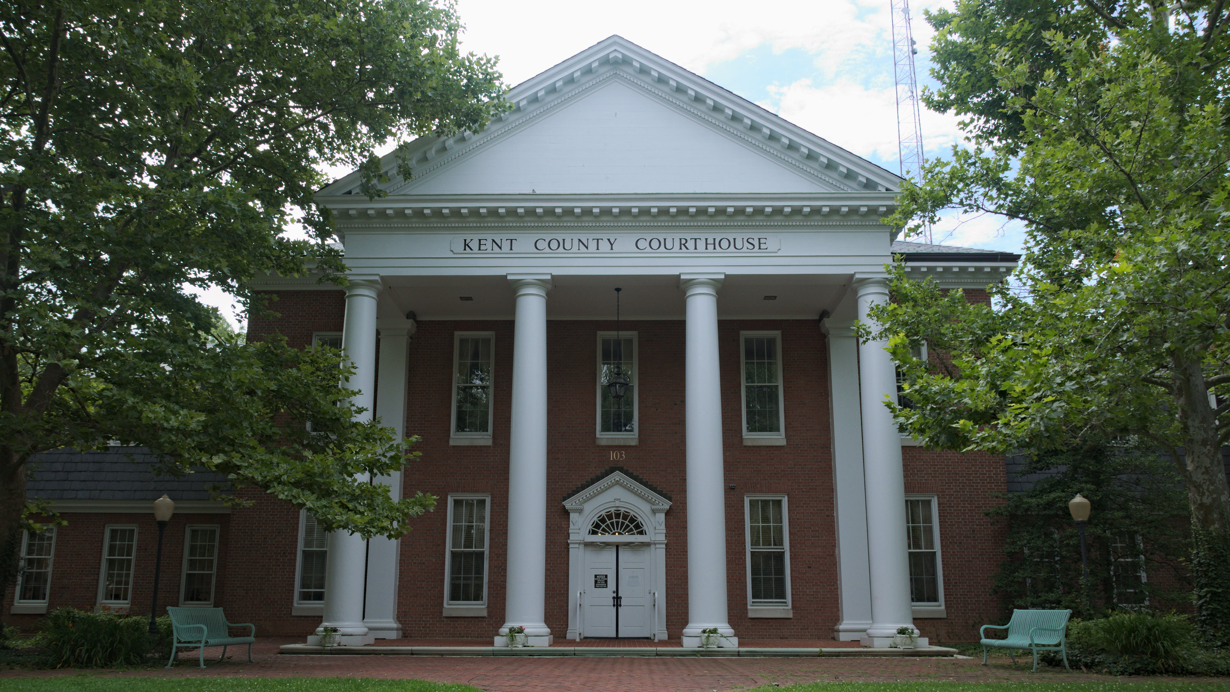 The exterior of the Kent County Courthouse in Chestertown, Maryland.